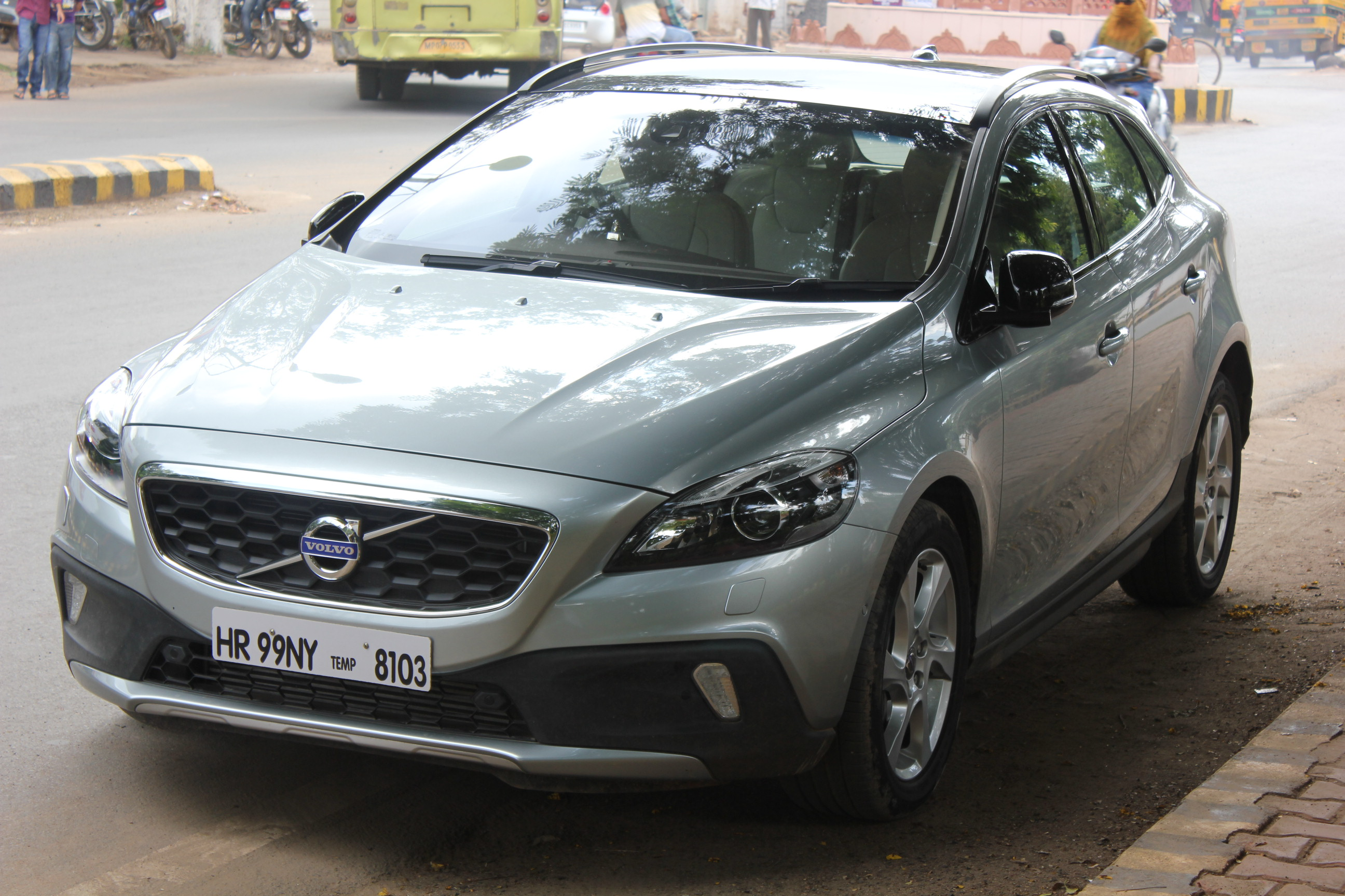 This file shows Volvo Volvo V40 Cross Country in Gwalior at Gandhi Road.